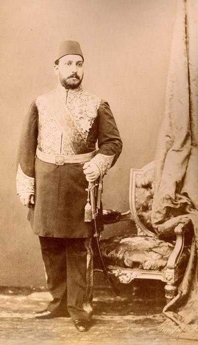 Tewfik Pasha (1852-1892) was proclaimed Khedive [ Viceroy ] of Egypt upon his father's [ Ismael Pasha] forced abdication by the British in 1879. his rule was an eventful one. The Egyptian Army mutiny led by Lt.Col. Ahmad Arabi Pasha, forced Tewfik to form a national government with Arabi as Defense Minister. British Forces landed in Alexandria after bombarding the city and at Ismailia in 1882, and Arabi and his Egyptian Forces were defeated at the Battle of Tel al-Kabir on Sopt. 13, 1882. Arabi was exiled to Ceylon.